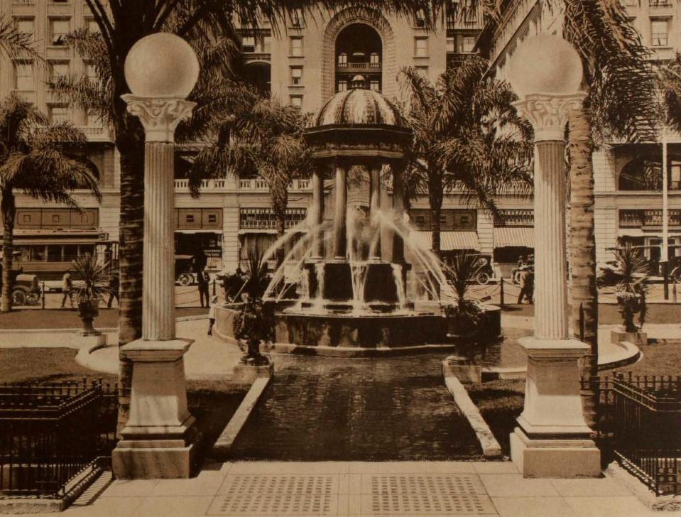 Promotional image of the Horton Plaza and Broadway Fountain in front of the U.S. Grant Hotel for marketing the 1915 Panama-California Exposition in Balboa Park, San Diego, California.